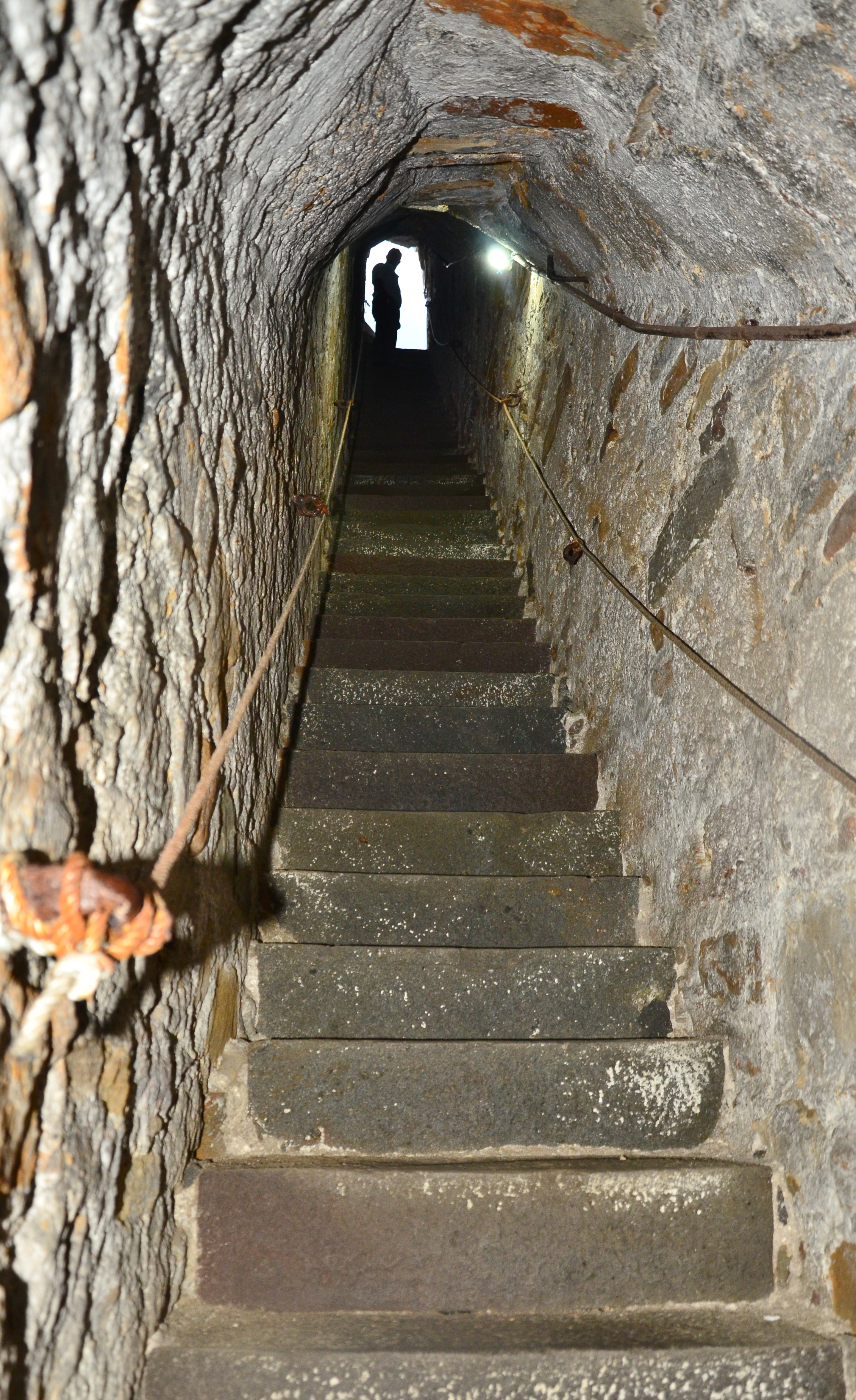 64 stairs leading to Agiasma in Kotsinas, Lemnos, Greece